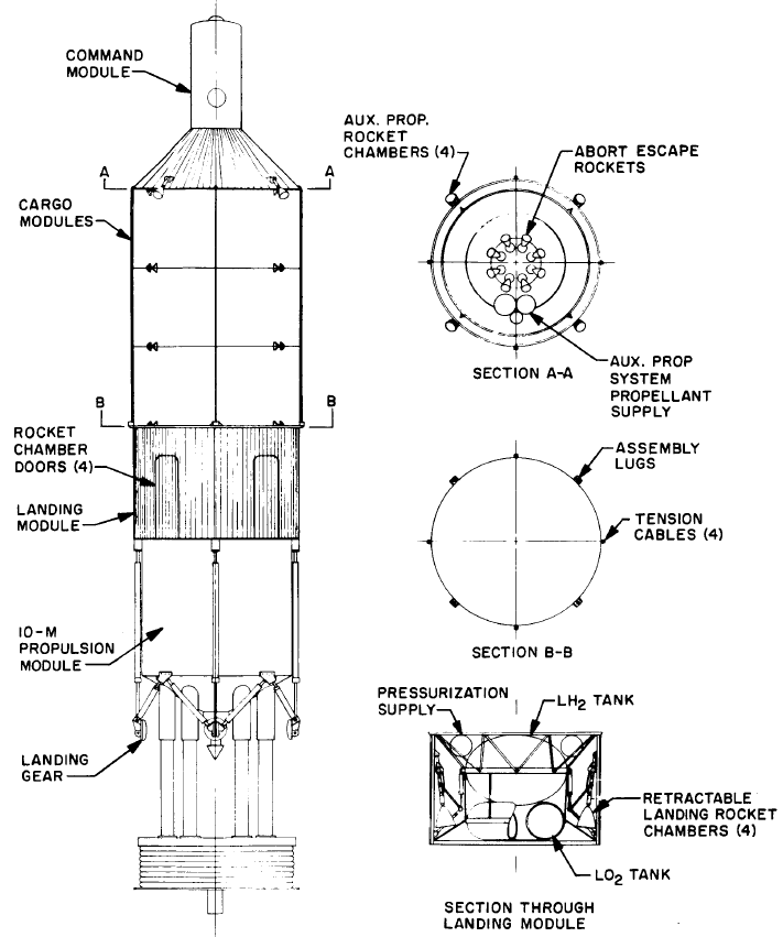 Configuration of an Orion nuclear rocket for earth-orbit to lunar surface missions